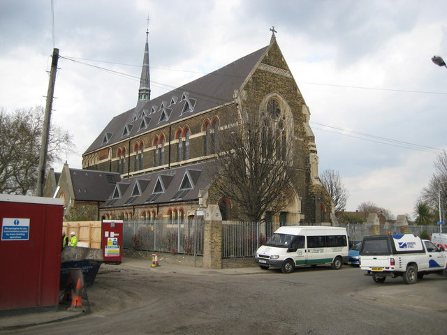 Canning Town: Former St Luke's Church St Luke's Church was consecrated in 1875 and deconsecrated in 1985. In 1993 it was under severe threat of demolition but is now in use as a community centre.